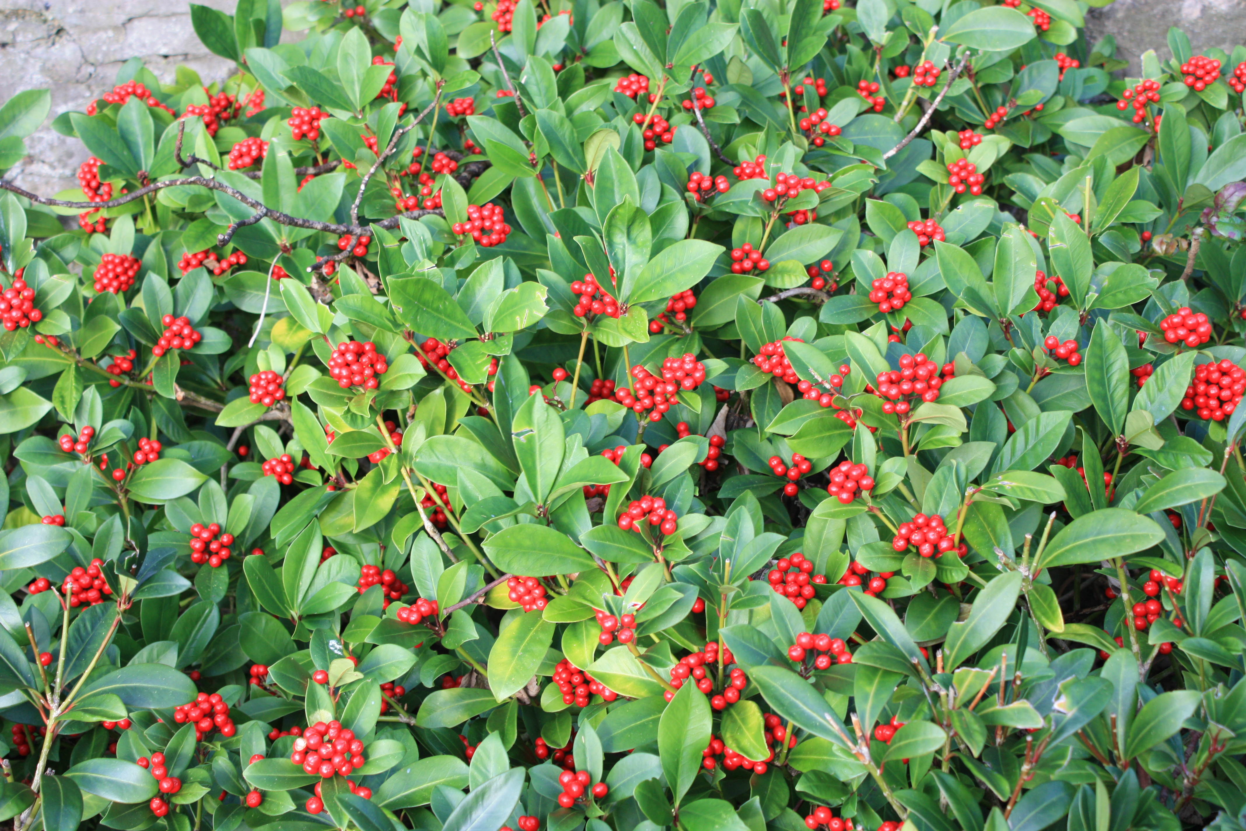 Skimmia japonica with fruit, Cathedral Gardens, St Patrick's (COI) Cathedral, Armagh, County Armagh, Northern Ireland, November 2009